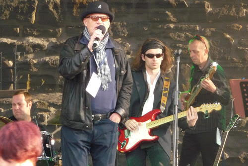 Picture of a picture from Jaromir Loeffler's archive of him performing for the purpose of his Wikipedia page